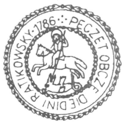 Seal of Radíkov u Olomouce village (Czech Republic)..